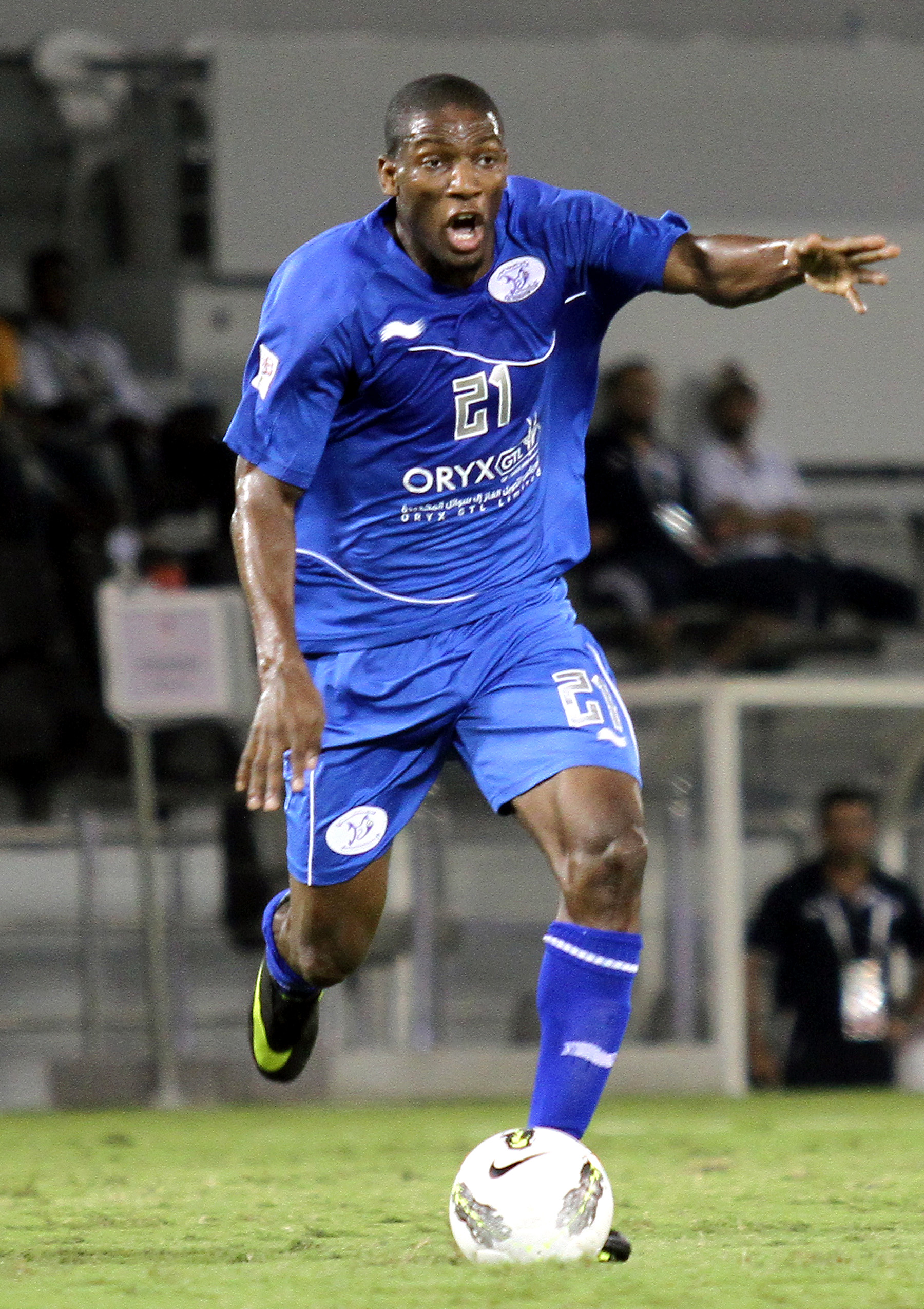 Al Kharaitiyat's Bahrain international Jaycee John in action in the Qatar Stars league. Pic by Vinod Divakaran